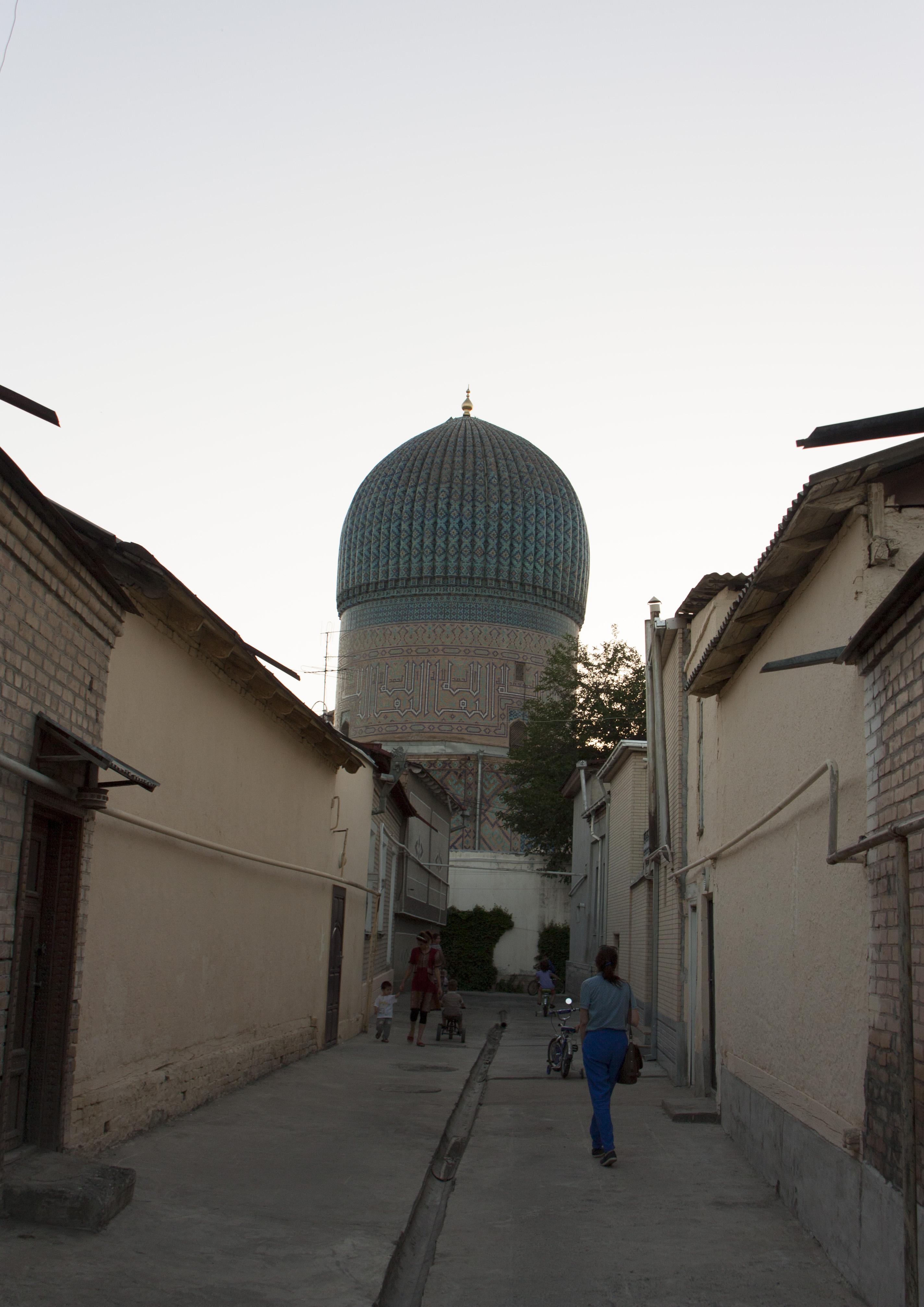 Gur-e Amir dome from old town